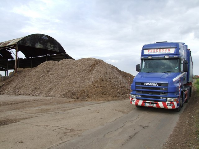 Farmland near Horncastle Described as 'compost', this heap appears to be waste from chicken sheds, which will probably be ploughed in once it has been weathered. As far as I know, this truck is the only make that has adopted the distinctive protruding bonnet style, which was common years ago.